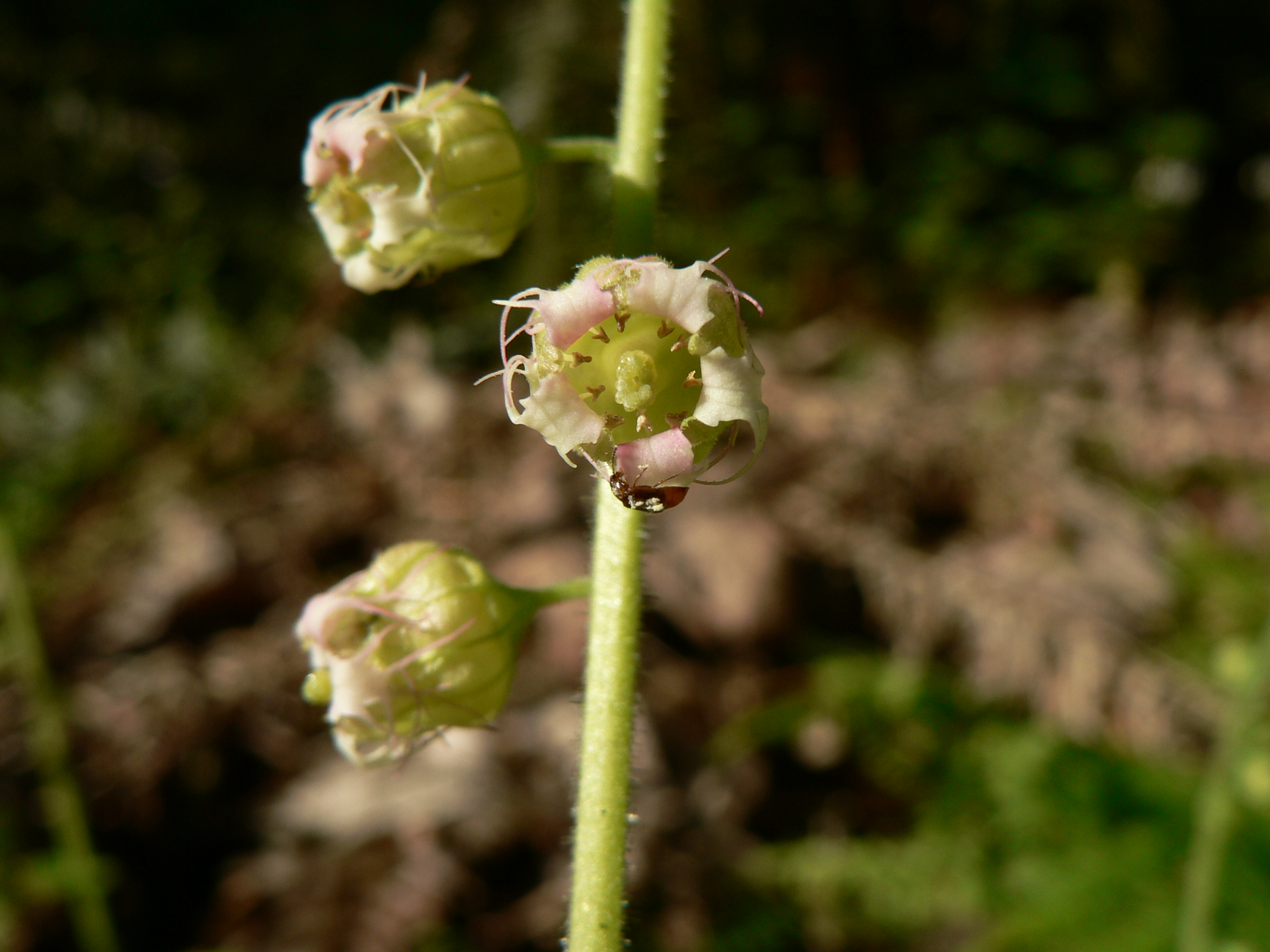 Big-flower Tellima, Fringecup